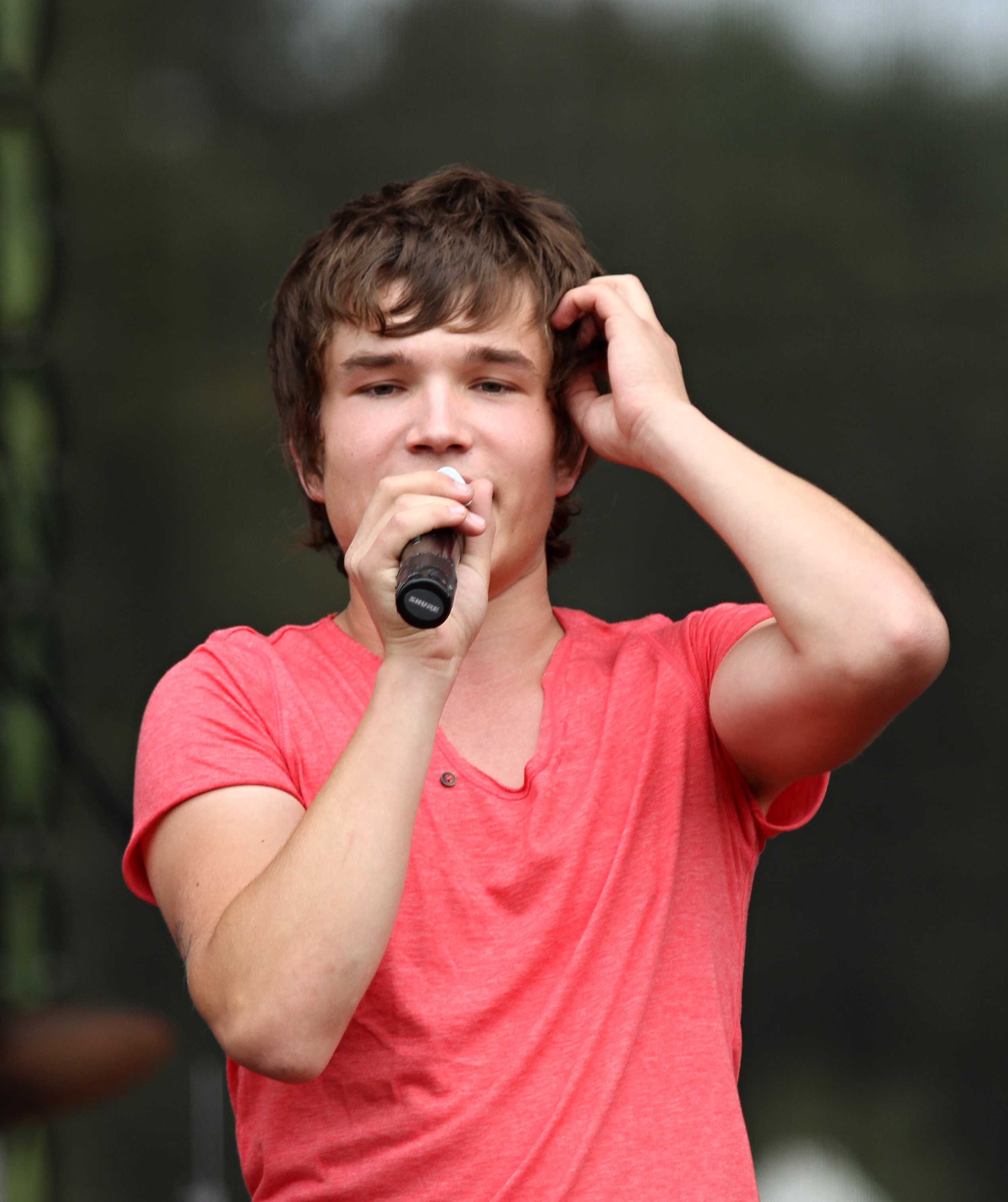 Slovak singer Martin Harich at the concert (Days of city 2012) in Kladno City.